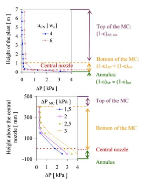 graph of central nozzle